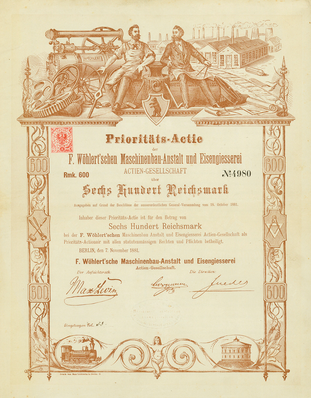 Share of the F. Wöhlert’sche Maschinenbau-Anstalt und Eisengiesserei AG, issued 7. November 1881